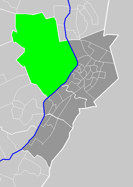 locators of Venlo